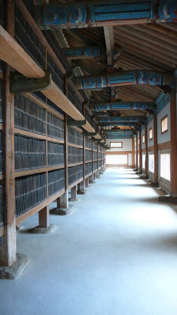 Tritipaka Koreana at Haeinsa temple, South Korea